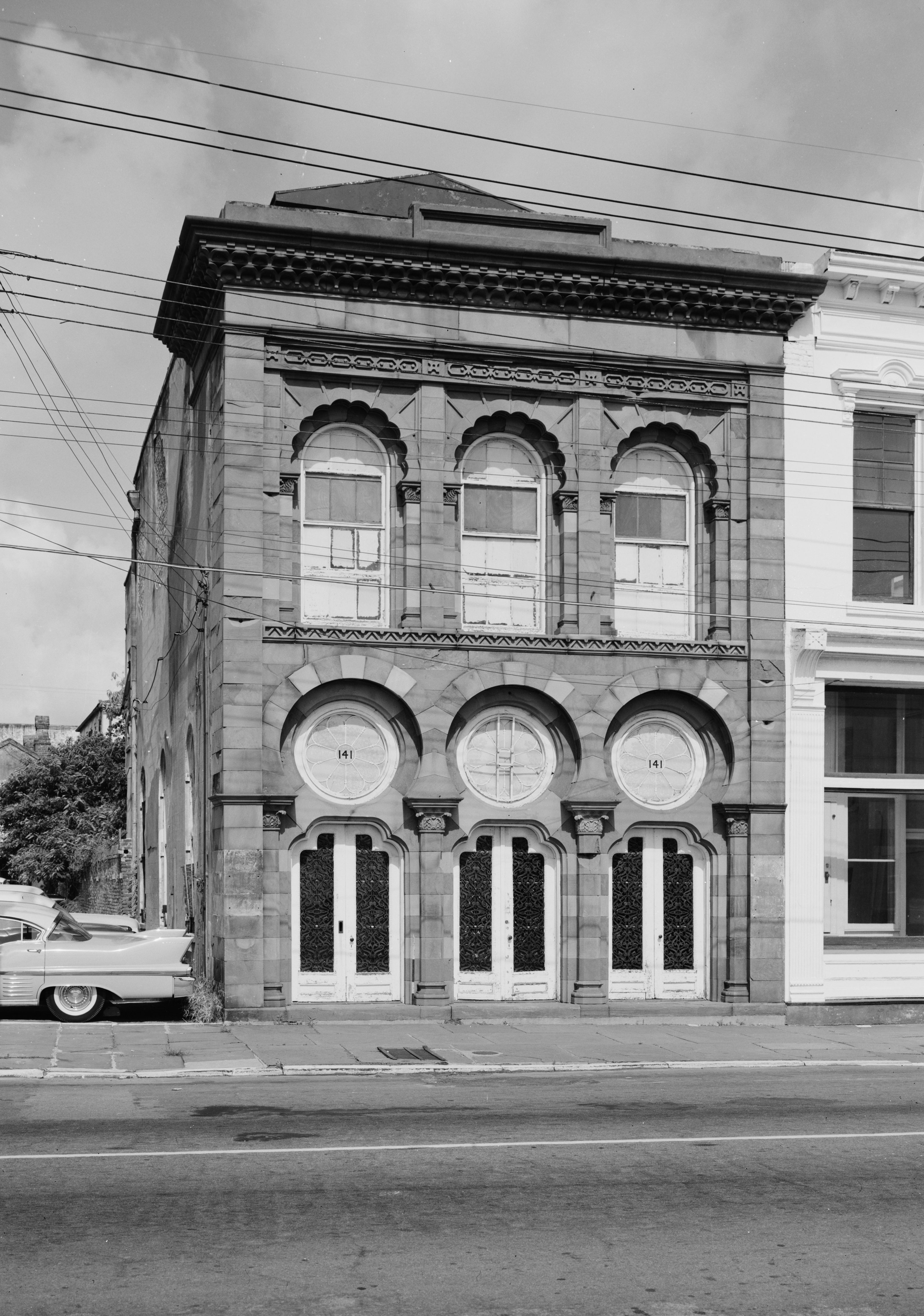 Farmers' and Exchange Bank (Charleston) (cropped)